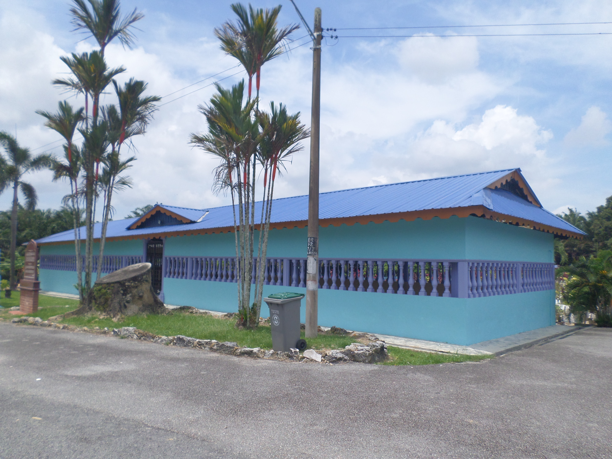 Grave of Tun Habab, Kota Tinggi, Johor, Malaysia